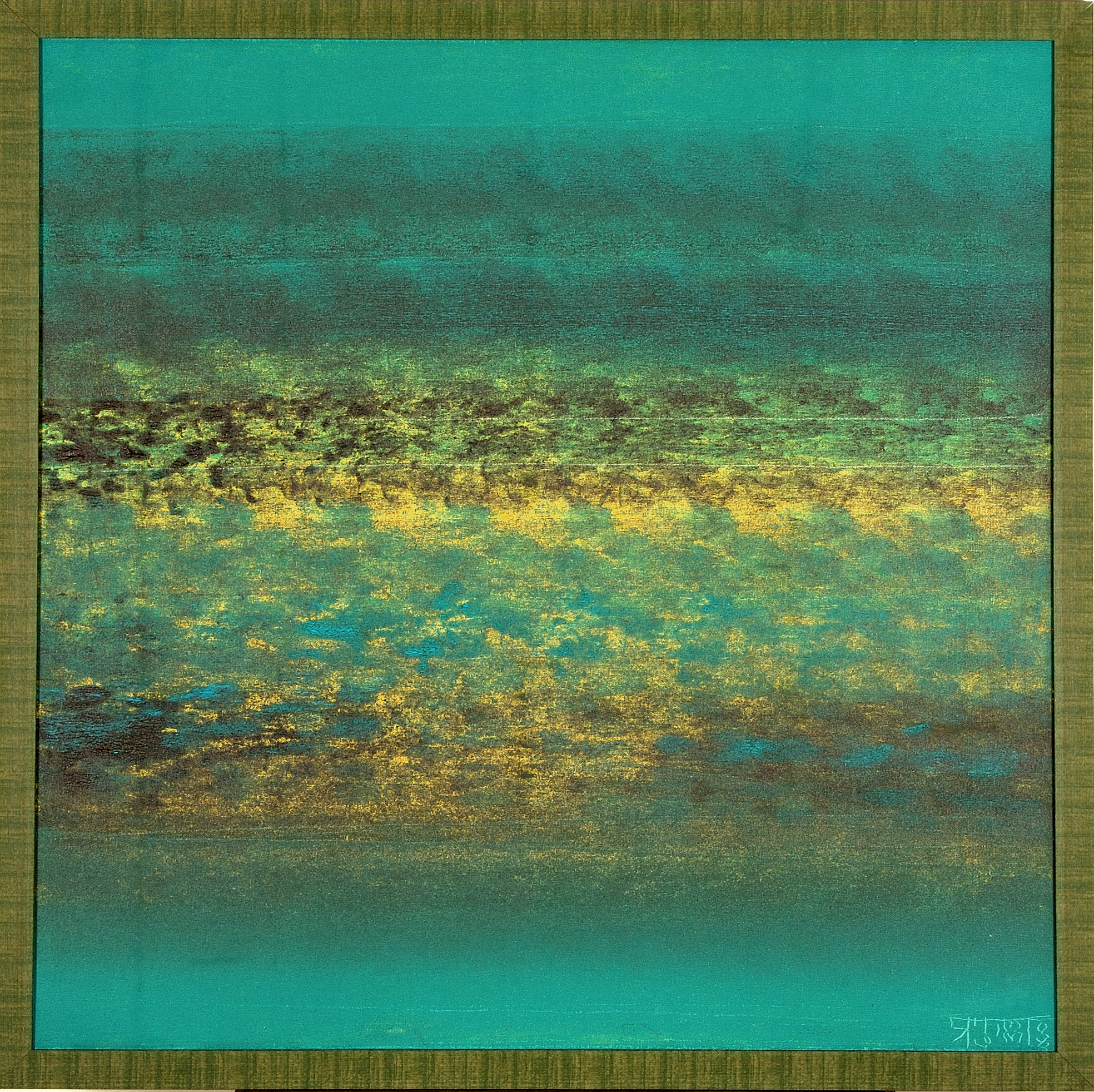 Oil on Canvas